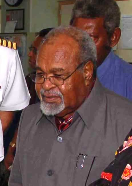 Prime Minister of Papua New Guinea Sir Michael Somare.